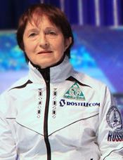 Tamara Moskvina at the 2009-2010 Grand Prix of Figure Skating Final.